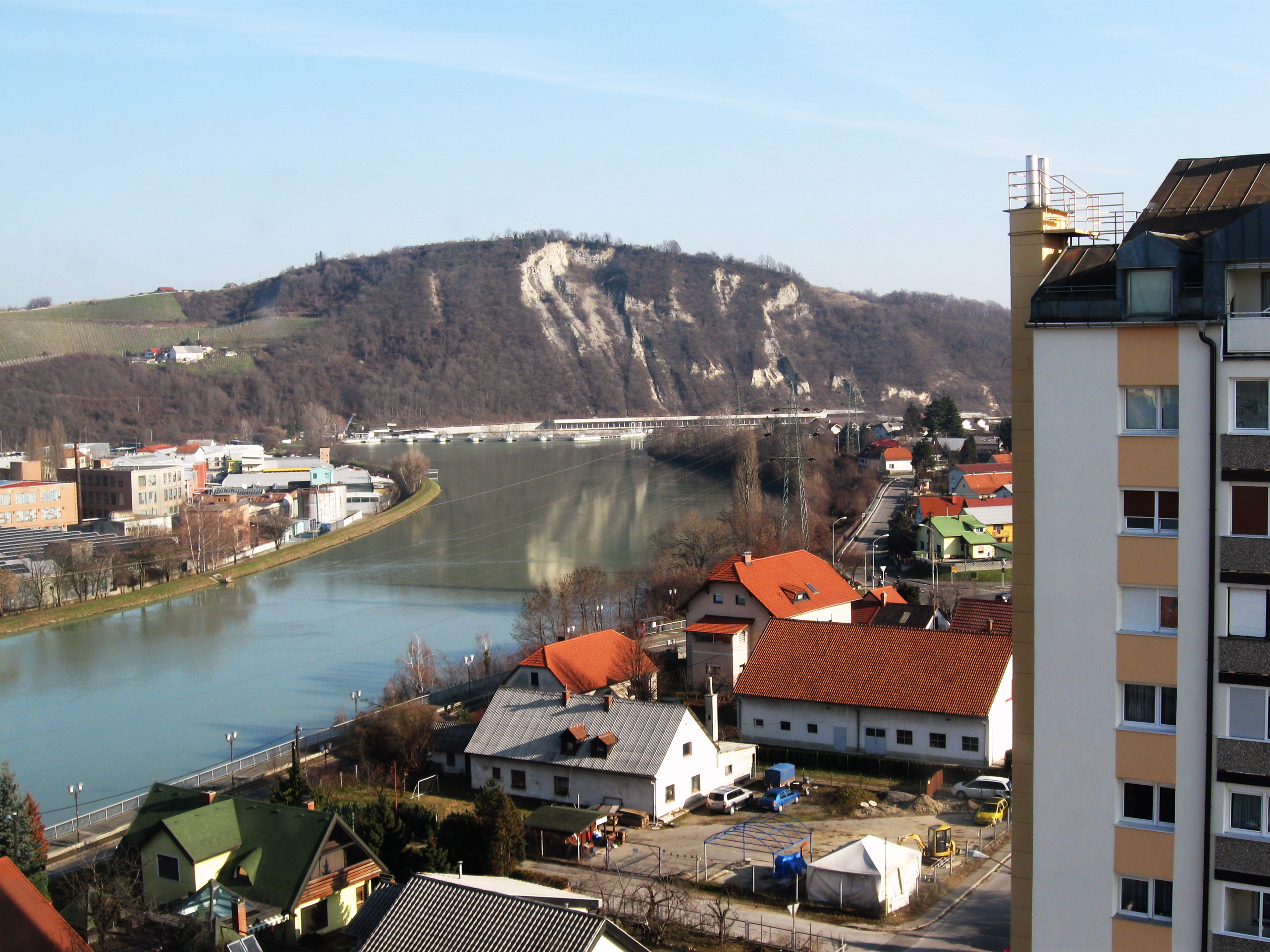 Melje hill, Maribor.